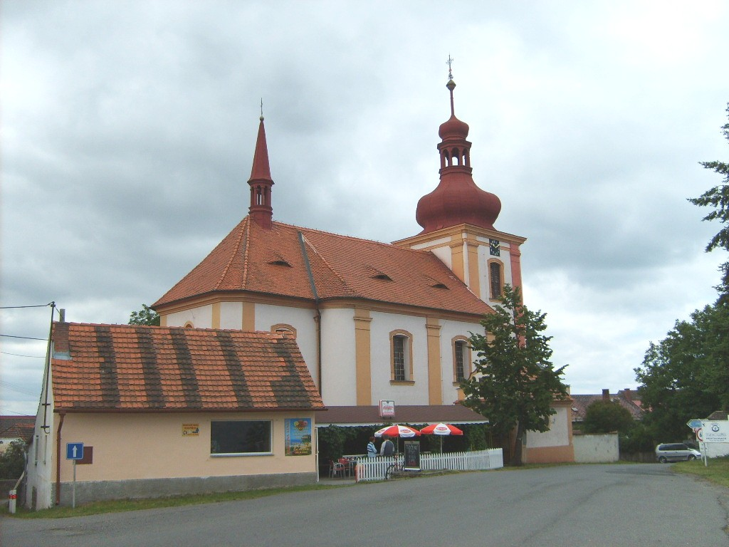 Baroque church in klučenice.